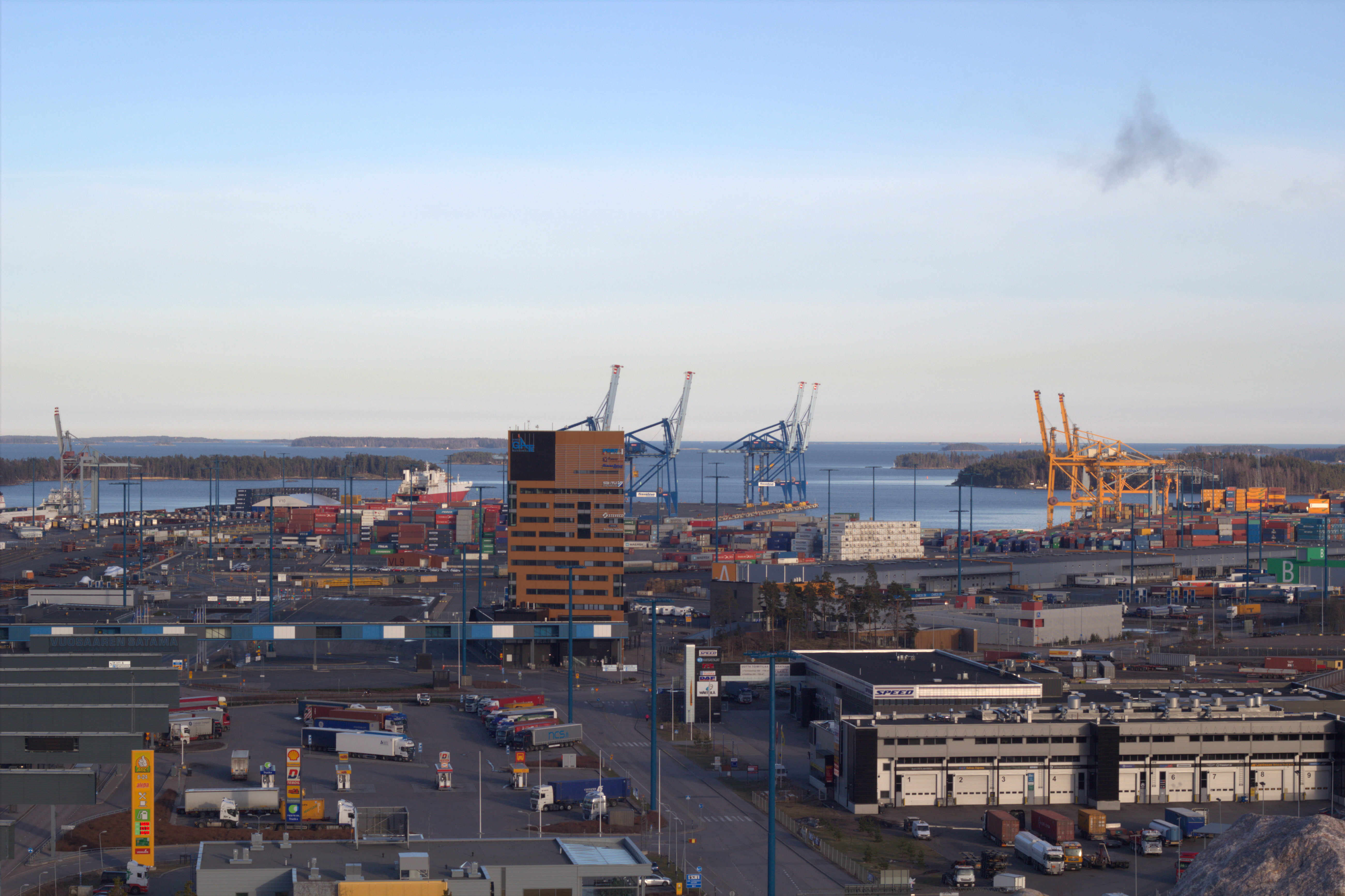 Vuosaari harbour in Helsinki. Picture was taken from top of the overlook place at Vuosaarenhuippu